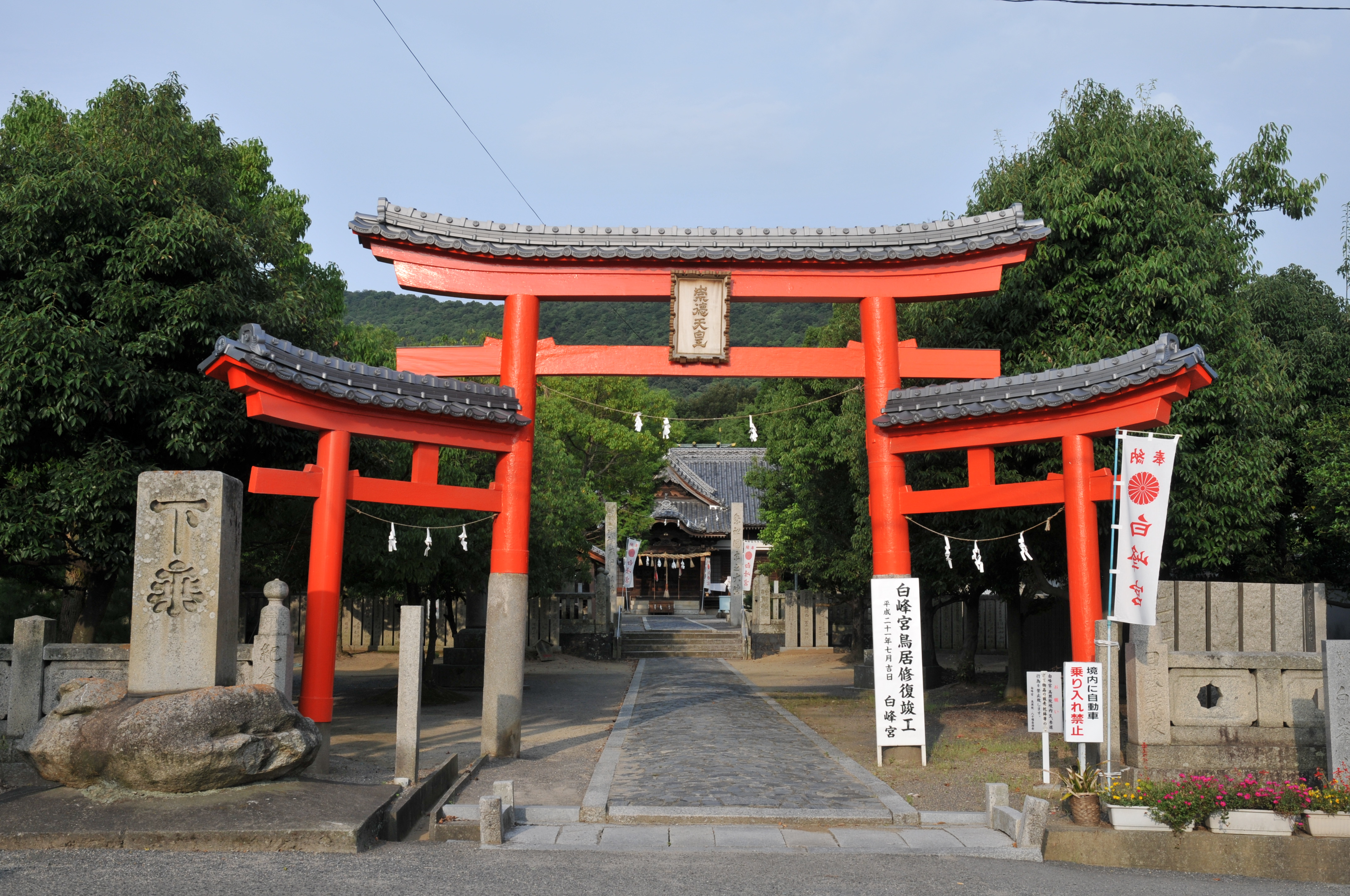 Torii of Shiramine-gu, entrance of Tennō-ji Kōshō-in